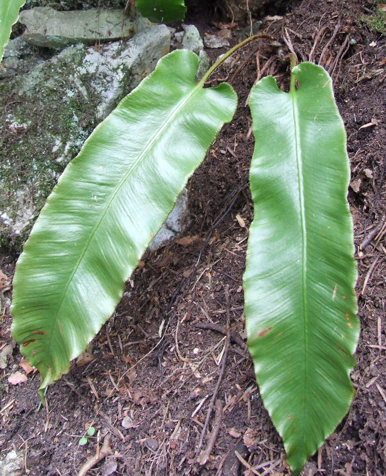 Phyllitis scolopendrum